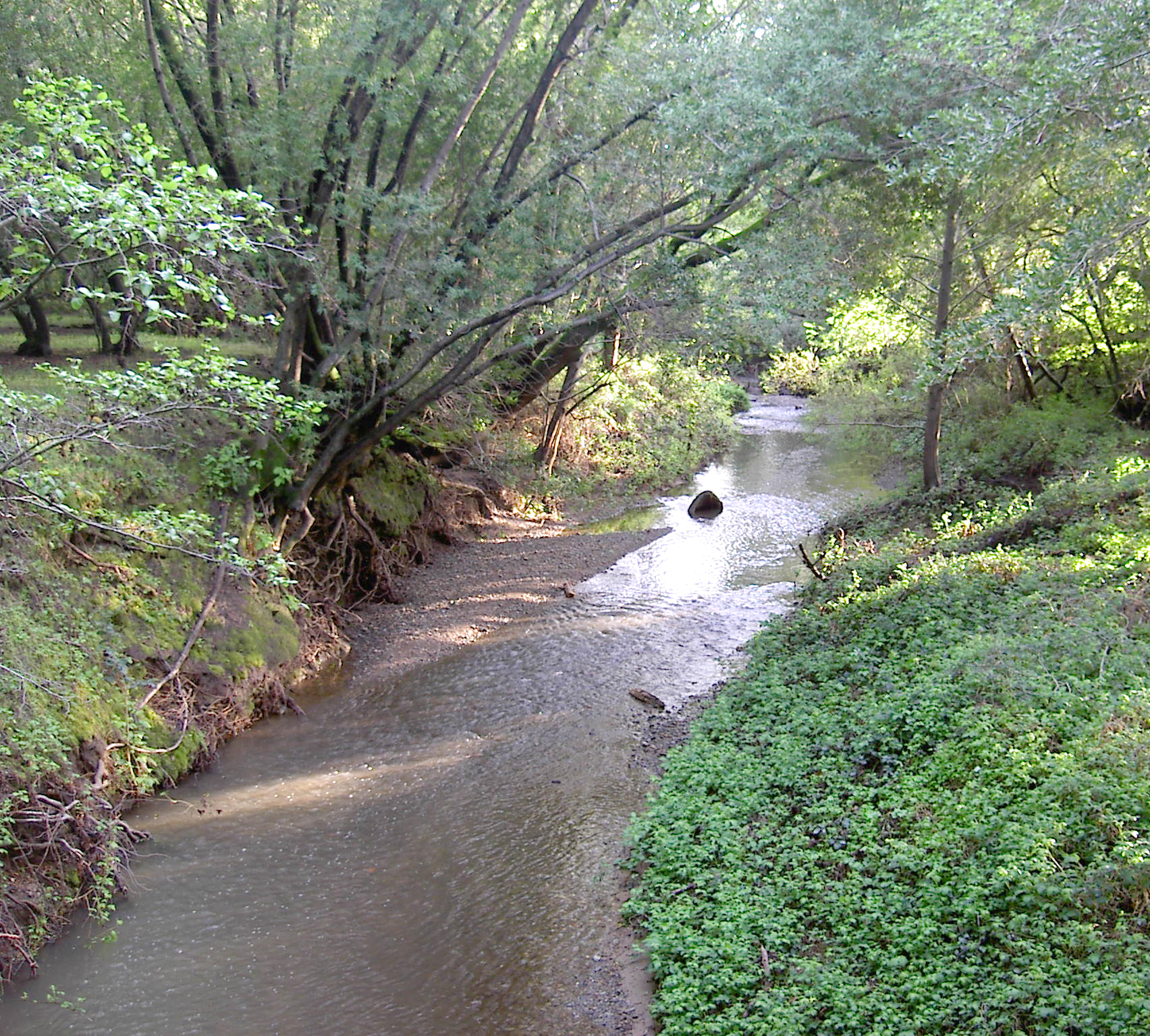 Miller Creek, taken at dusk from a pedestrian bridge in Marinwood Park, Marin County, California. On April 2nd, 2010. Cropped.